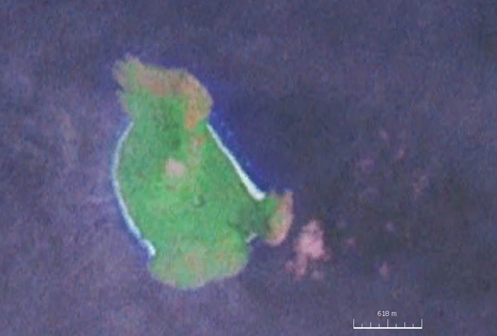 North Island, Seychelles: NASA World Wind, Geocover 2000